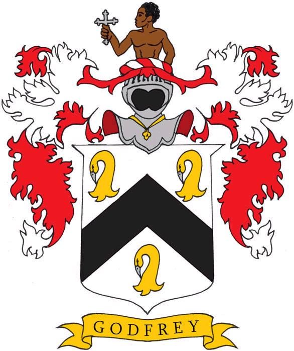 Godfrey family Coat of Arms